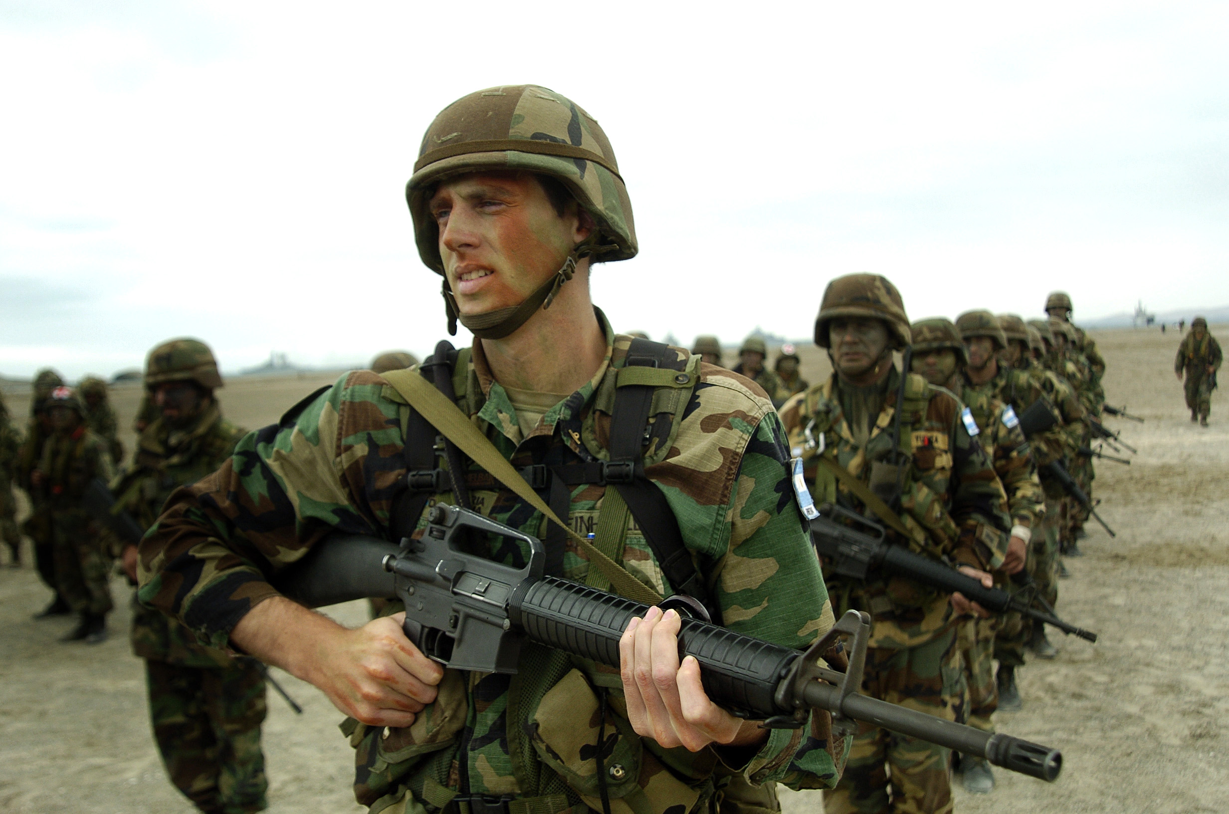 Salinas, Peru (July 4, 2004) - Marines from Argentina line up in formation alongside U.S. Marines during the largest amphibious assault exercise in Latin America, UNITAS 45-04. Eleven partner nations from the U.S. and Latin America came together for the largest multilateral exercise in the Southern Hemisphere. Held since 1959, UNITAS aims to unite military forces throughout the Americas with bilateral and multilateral shipboard, amphibious and in-port exercises and operations. UNITAS improves operational readiness and interoperability of U.S. and South American naval, coast guard, and marine forces while promoting friendship, professionalism and understanding among participants. U.S. Navy photo by Chief Journalist Dave Fliesen (RELEASED)